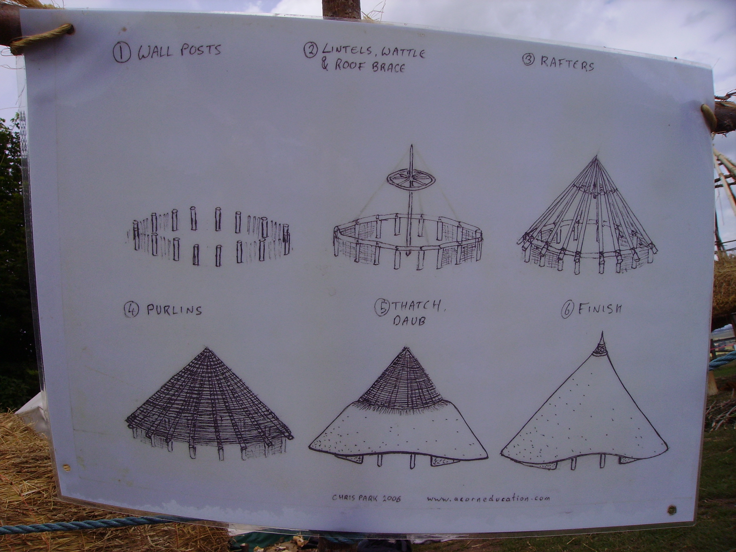 Photographer: User:Ballista